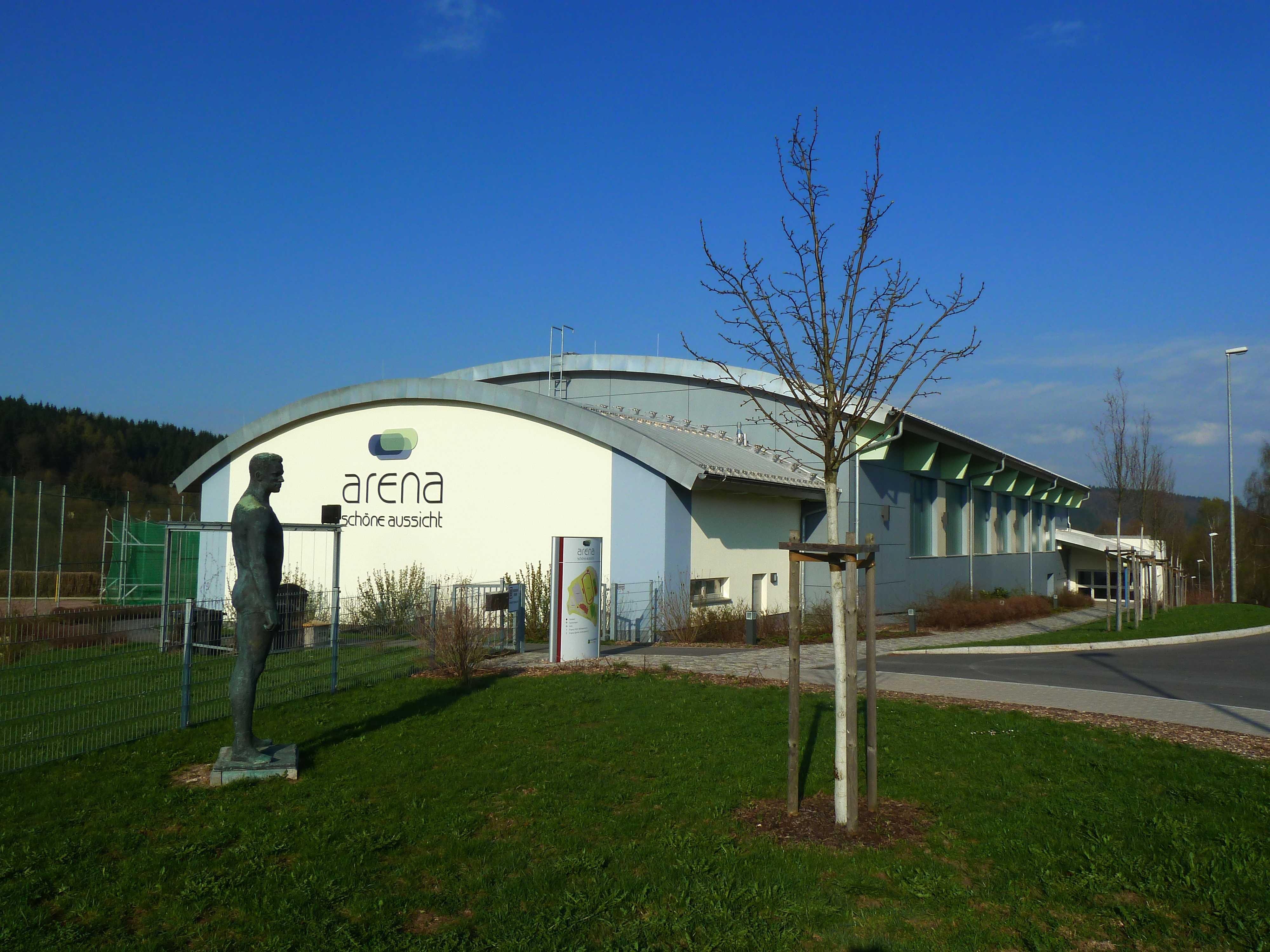 Arena "Schöne Aussicht"